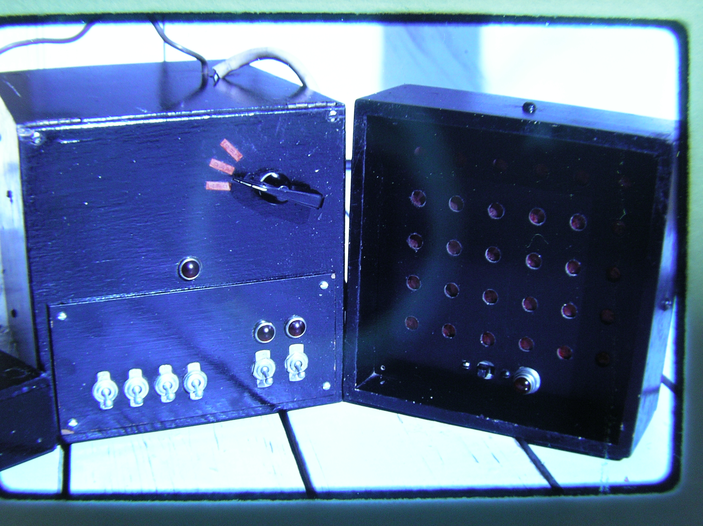 This apparatus is the control system (left) and output display (right) of a device that translated 20 words of Russian into English. In operation, a word of up to 6 characters was dialed into 6 series-connected potentiometers on an input panel (not shown). The control system then automatically sequenced through 20 trimmer resistors, each programmed with a unique resistance representing 1 of 20 words. When the sum of the resistances of the input potentiometers matched the trimmer resistance being sampled, the needle of a milliamp meter was nulled at 0. A small aluminum foil flag cemented to the meter needle then blocked light emitted by a flashlight bulb from arriving at a small solar cell cemented on the face of the meter. The absence of signal from the solar cell switched off a transistor that activated the scanning motor that sampled the trimmers in turn. (The motor was a modified electric music box mechanism.) The translated word was then indicated by 1 of 20 red lights on the output panel. This system was essentially a crude but programmable and functional hybrid analog/digital machine. In 1984 Dr. Uta C. Merzbach, formerly curator of the Division of Mathematics at the Smithsonian Institution, visited my home to inspect my collection of MITS memorabilia that she wanted to acquire for the Smithsonian. During the visit, she expressed interest in the language translator as an early example of hobby computing. She asked if it could also be acquired, and I agreed.